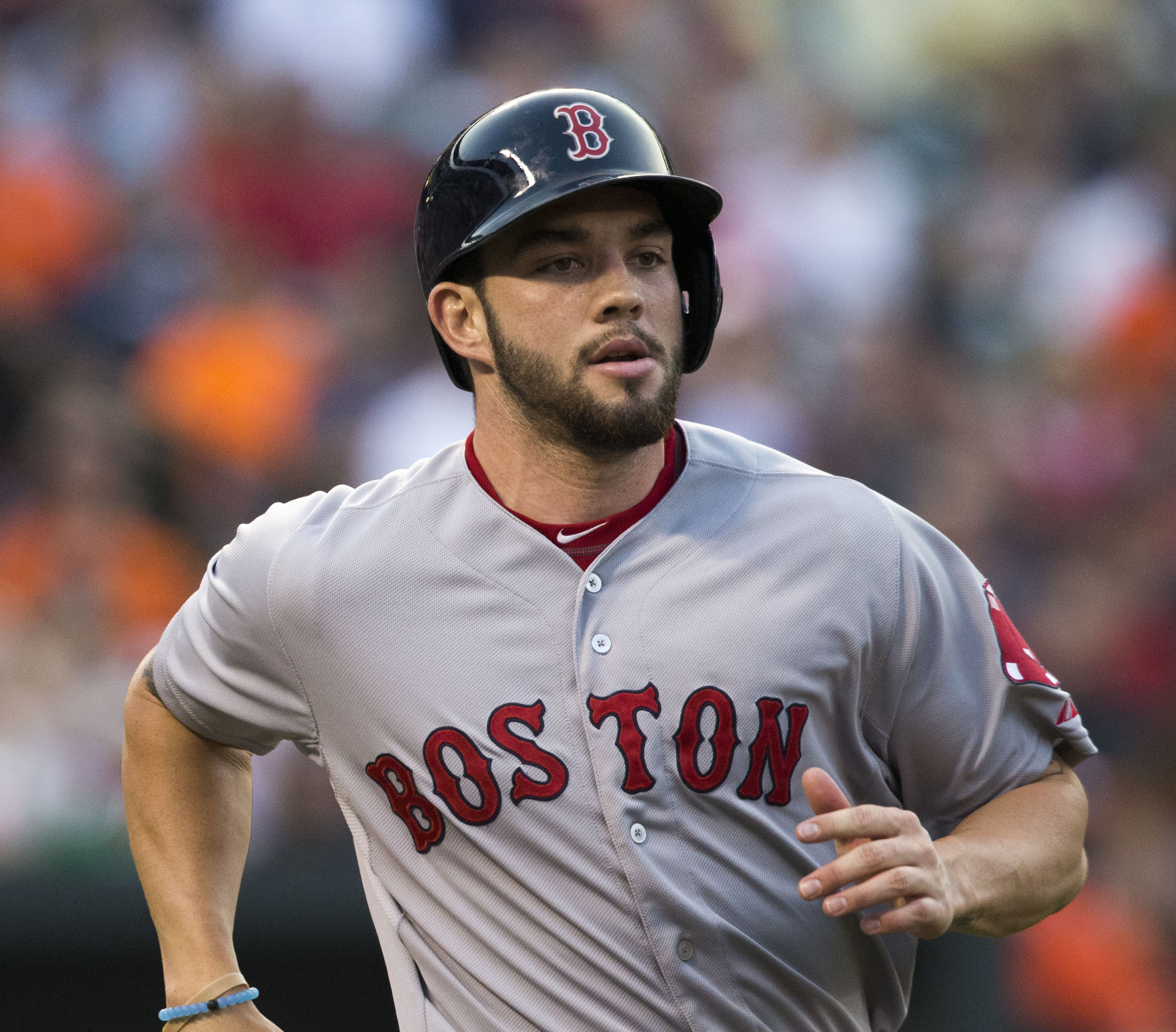 Red Sox at Orioles 6/10/15